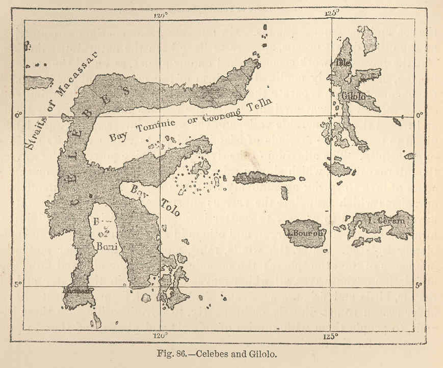 Celebes and Gilolo Subject: Celebes (Indonesia)--Maps Geographic Subject: Indonesia--Celebes Tag: Coasts